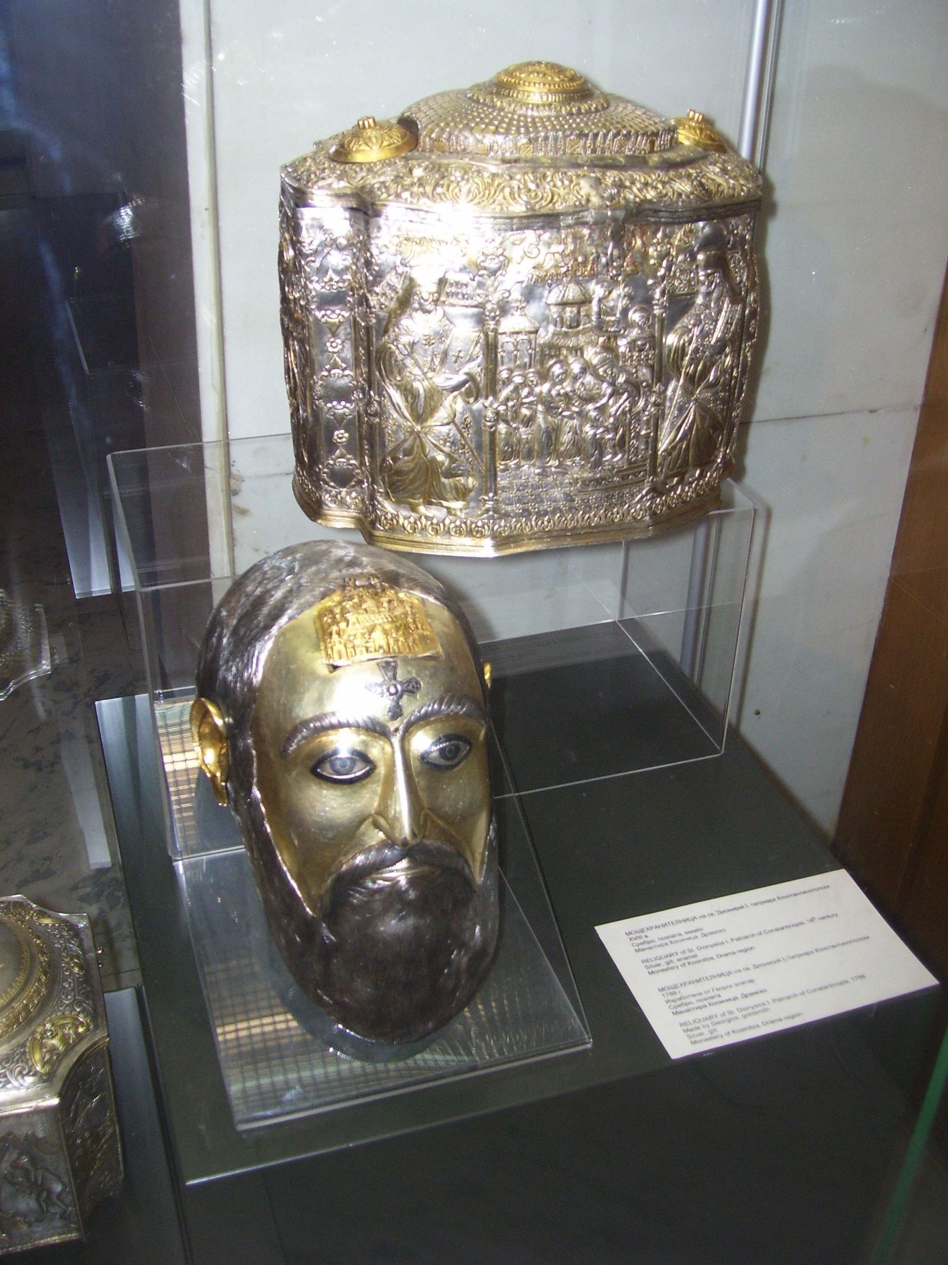 Two greek 1788 reliquaries of St Dionysios originated from the Panagia Ekosifinissa Monastery (Greece) (Ikosifinisa or Kushnitsa Monastery), captured by the Bulgarian occupation army during the Second Bulgarian Occupation of Eastern Macedonia (1916-1918, World War I) and now on display at the National Historical Museum of Bulgaria. Silver, gilt, enemel.